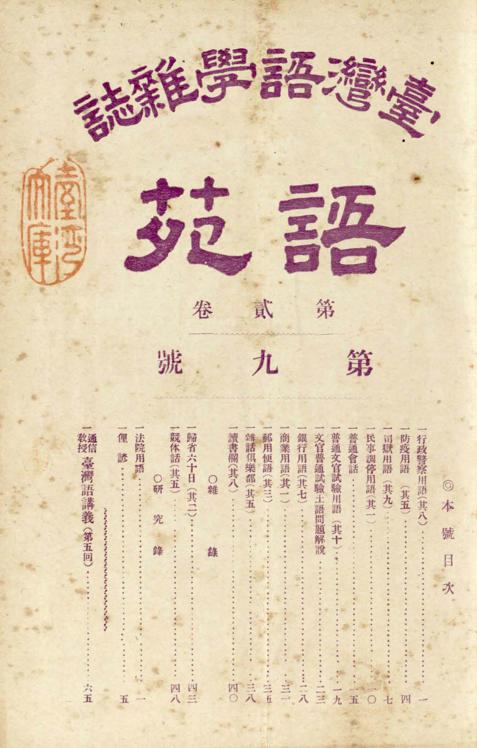 Goen, a magazine for learning Taiwanese language